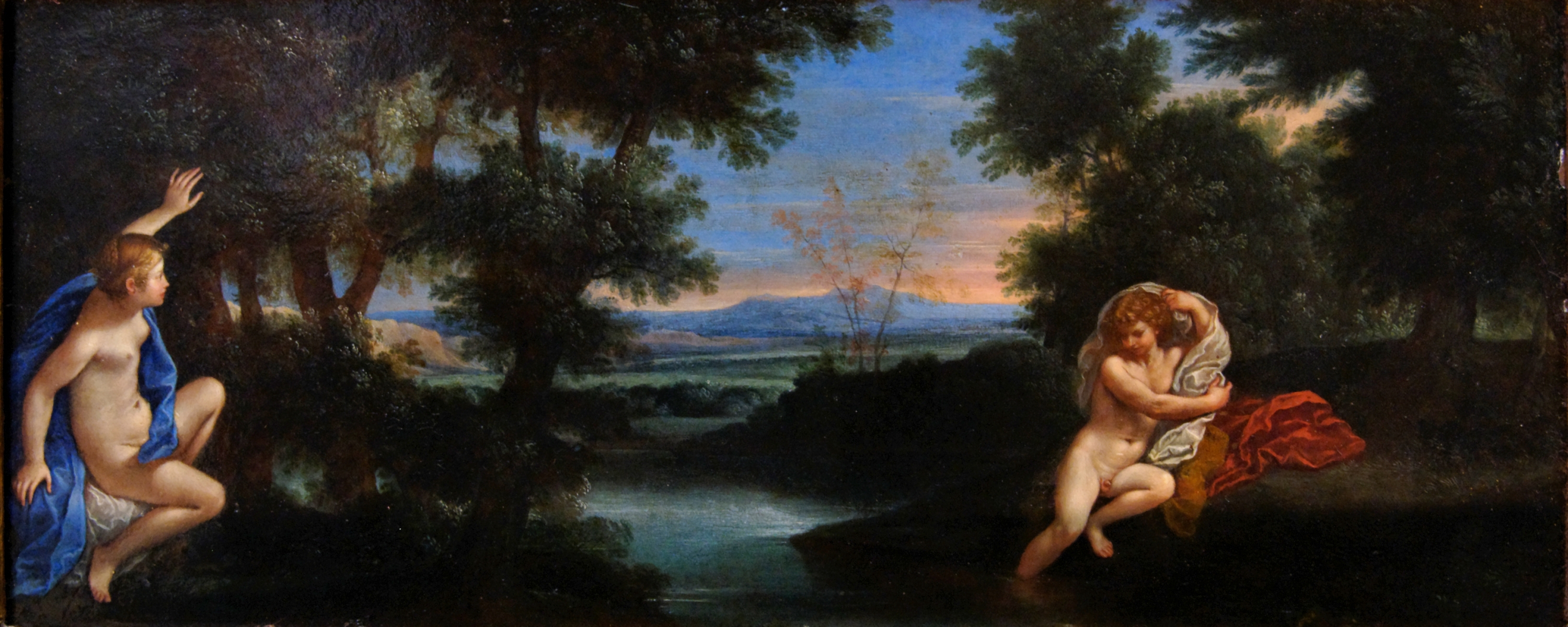 without frame